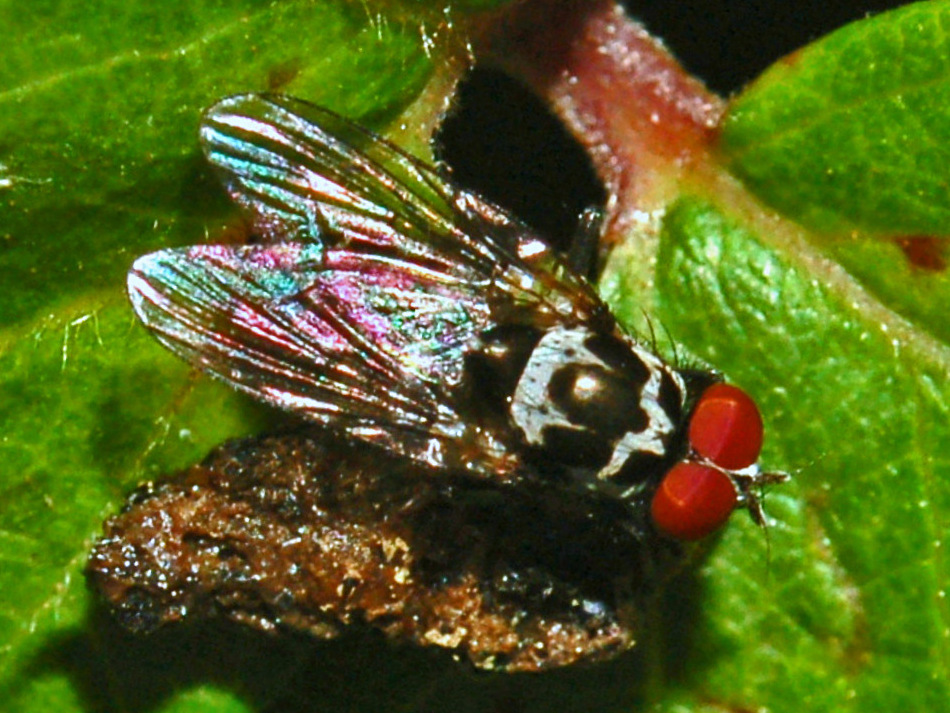 Anthomyia cf. procellaris, Genoa, Italy